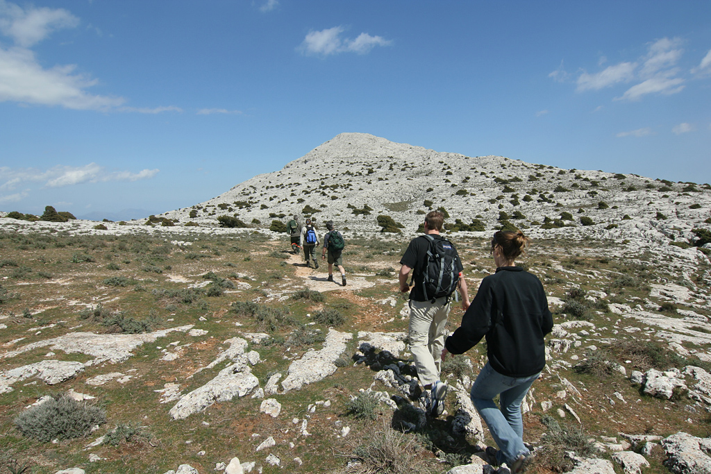 4 tourists led by a local forest worker to the peak Punta Sos Nidos (1348 m) near Oliena